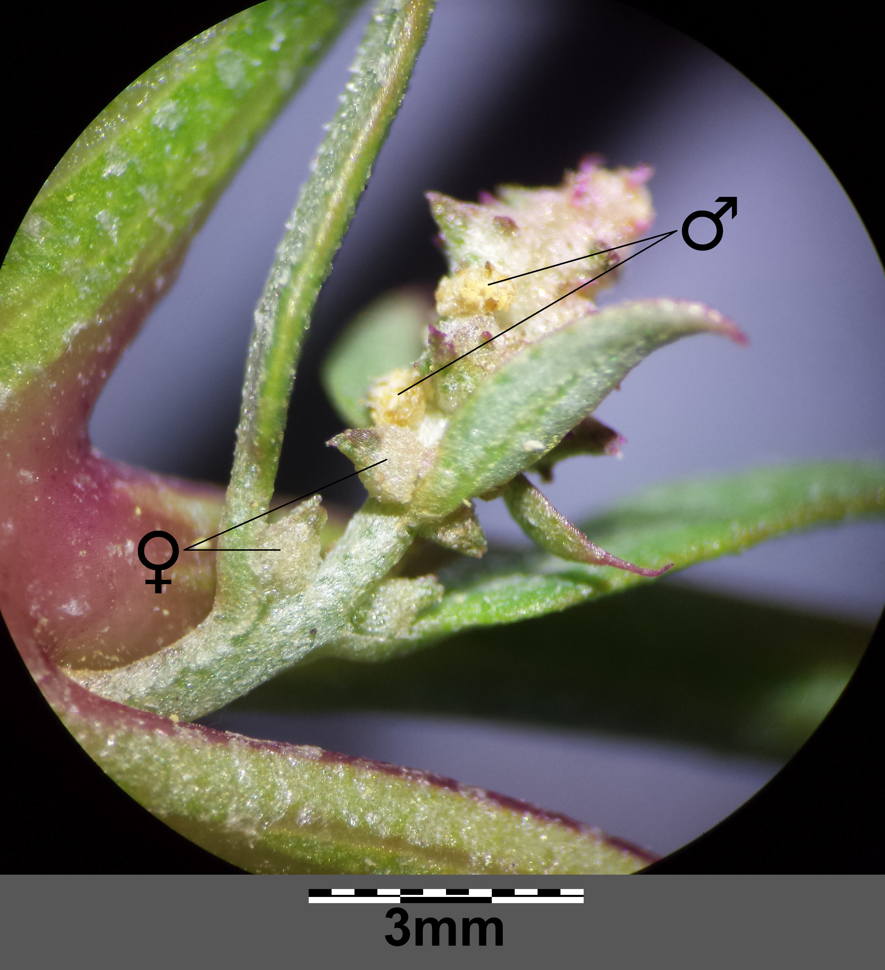 Inflorescence with female and male flowers Taxonym: Atriplex prostrata ss Fischer et al. EfÖLS 2008 ISBN 978-3-85474-187-9 Location: next to Zwingendorf, district Mistelbach, Lower Austria - ca. 185 m a.s.l. Habitat: salt meadow